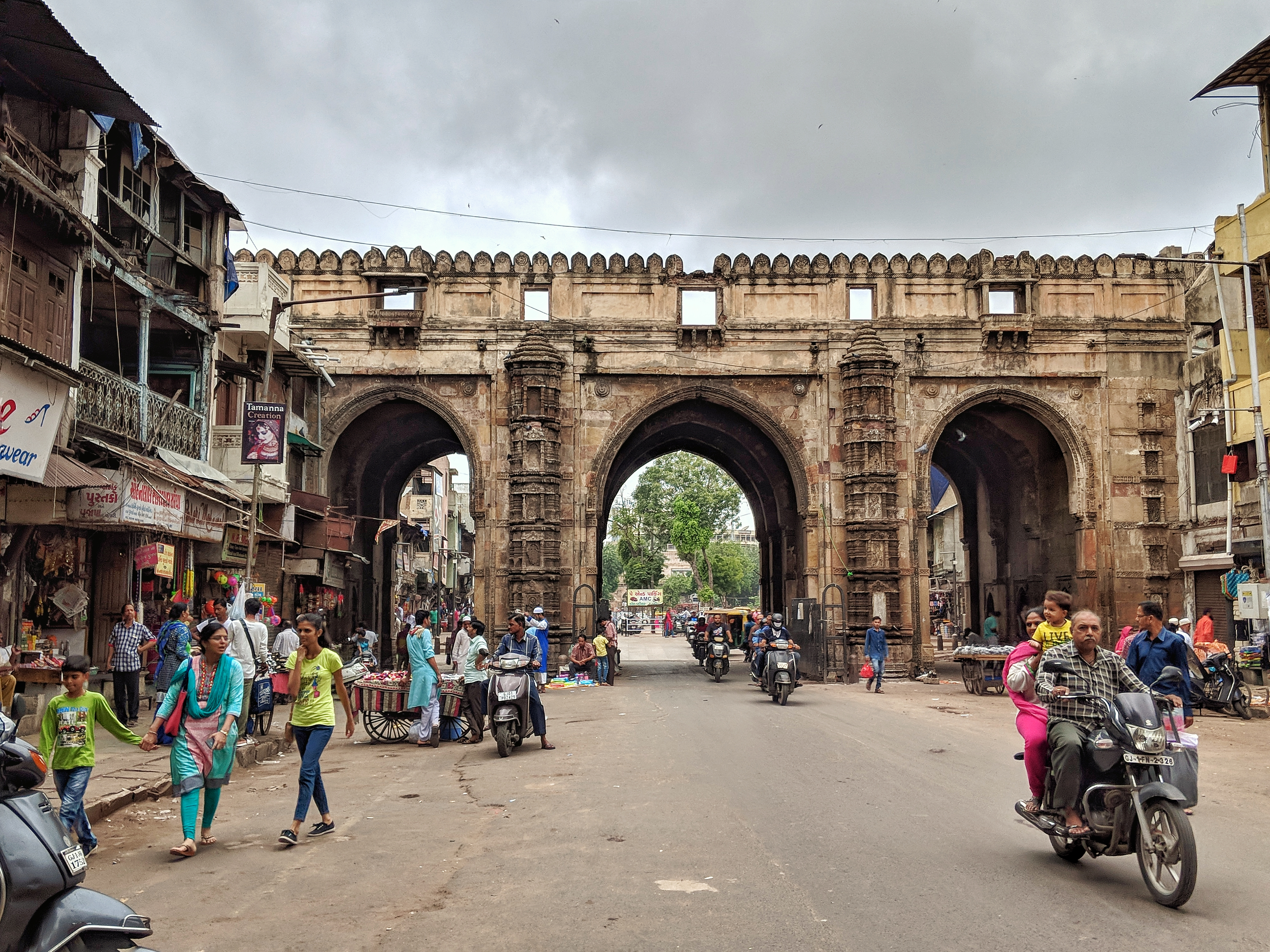 Teen Darwaja (Three Gates) is a monument built in early 15th century in Ahmedabad, east to Bhadrafort, north-west to Jama Mosque.